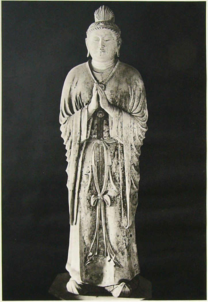 Gakkō Bosatsu (Bodhisattvas of sun and moon light) , Colored clay, 206.8 cm (81.4 in) Nara period, 8th century, Hokke-dō , Tōdai-ji, Nara, Japan